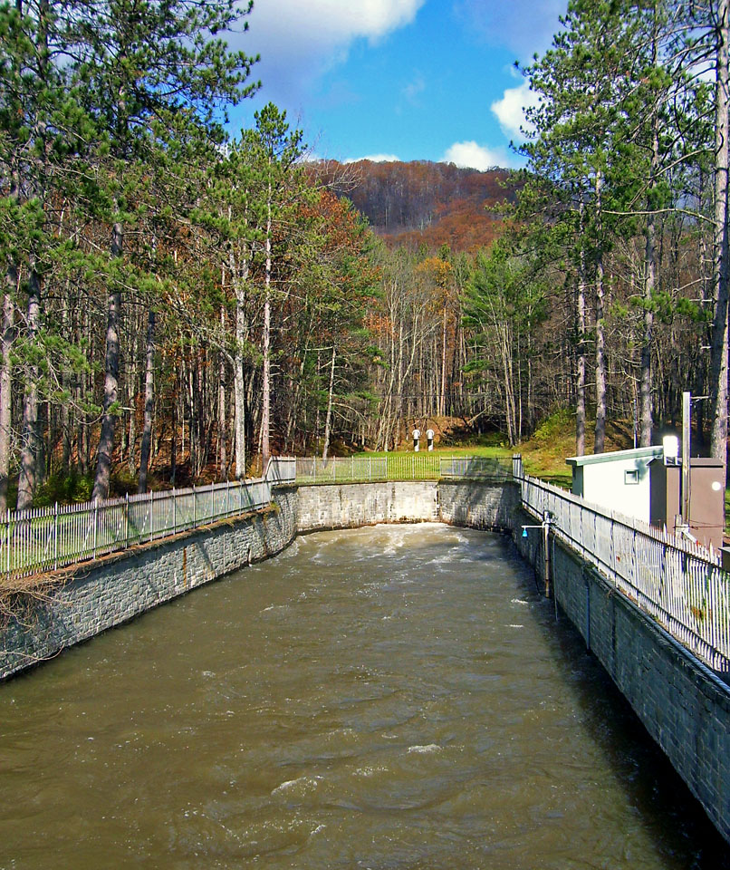 Photographed by Daniel Case 2006-11-04 from the Route 28 bridge in the town of Shandaken